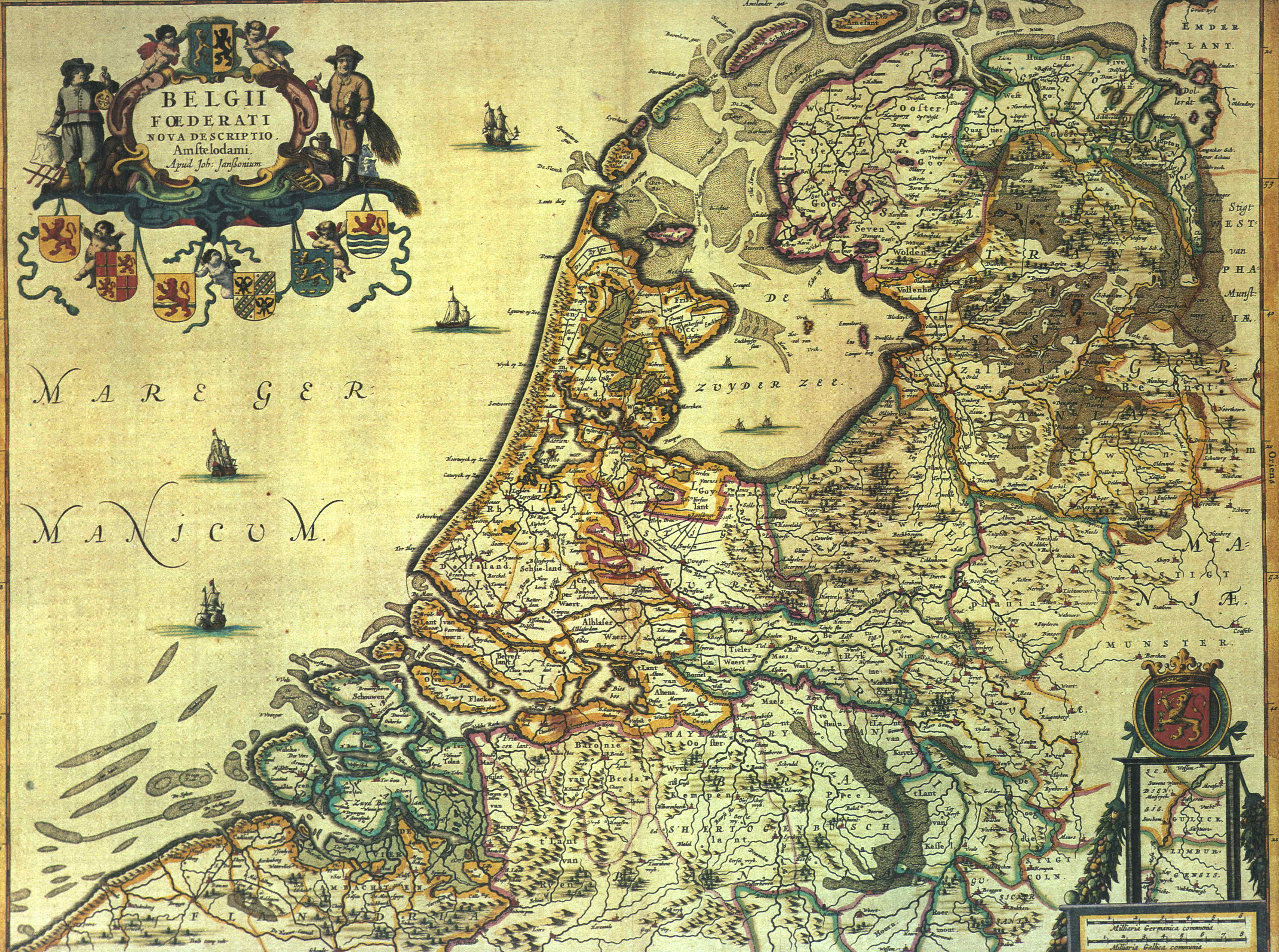 "Belgii foederati Nova descriptio Amstelodami apud Joh: Janssonium". Map of The Netherlands 1658